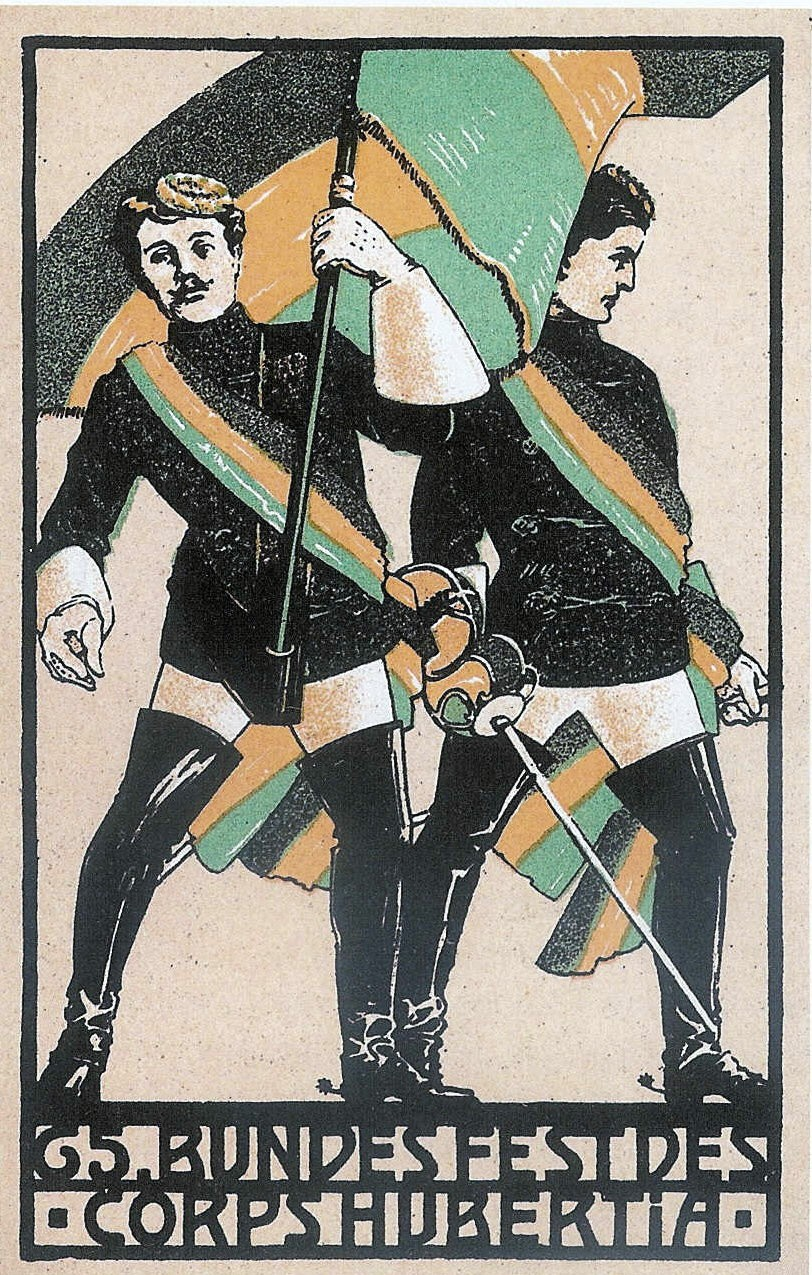 Front cover of invitation card for the 65th anniversary of Corps Hubertia Aschaffenburg, 31 July - 2 August 1909